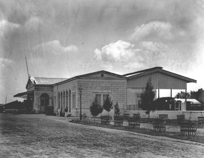 The 'Goebeng' railway station